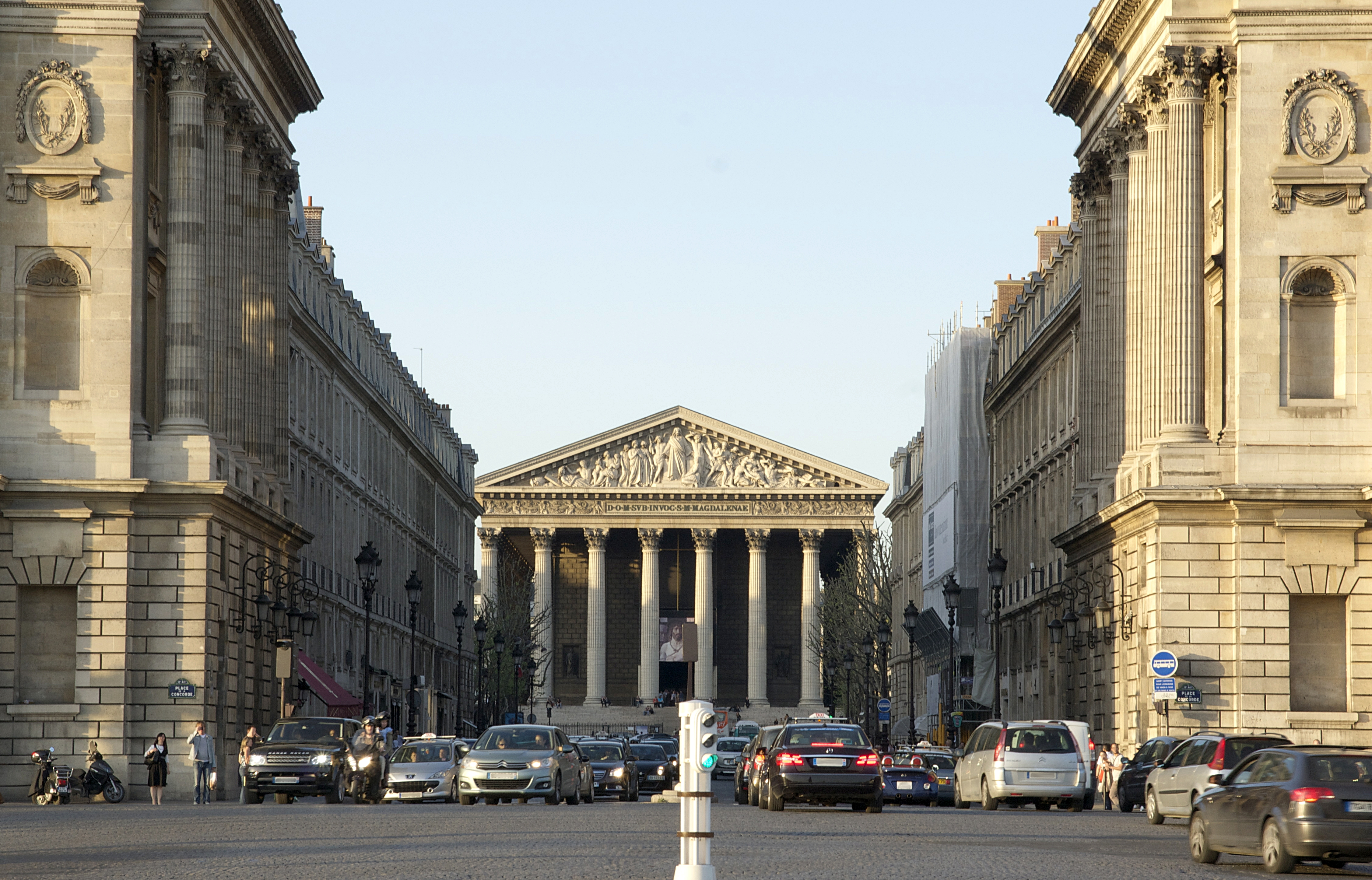 Rue Royale, from Place de la Concorde. Eglise de la Madeleine in background.